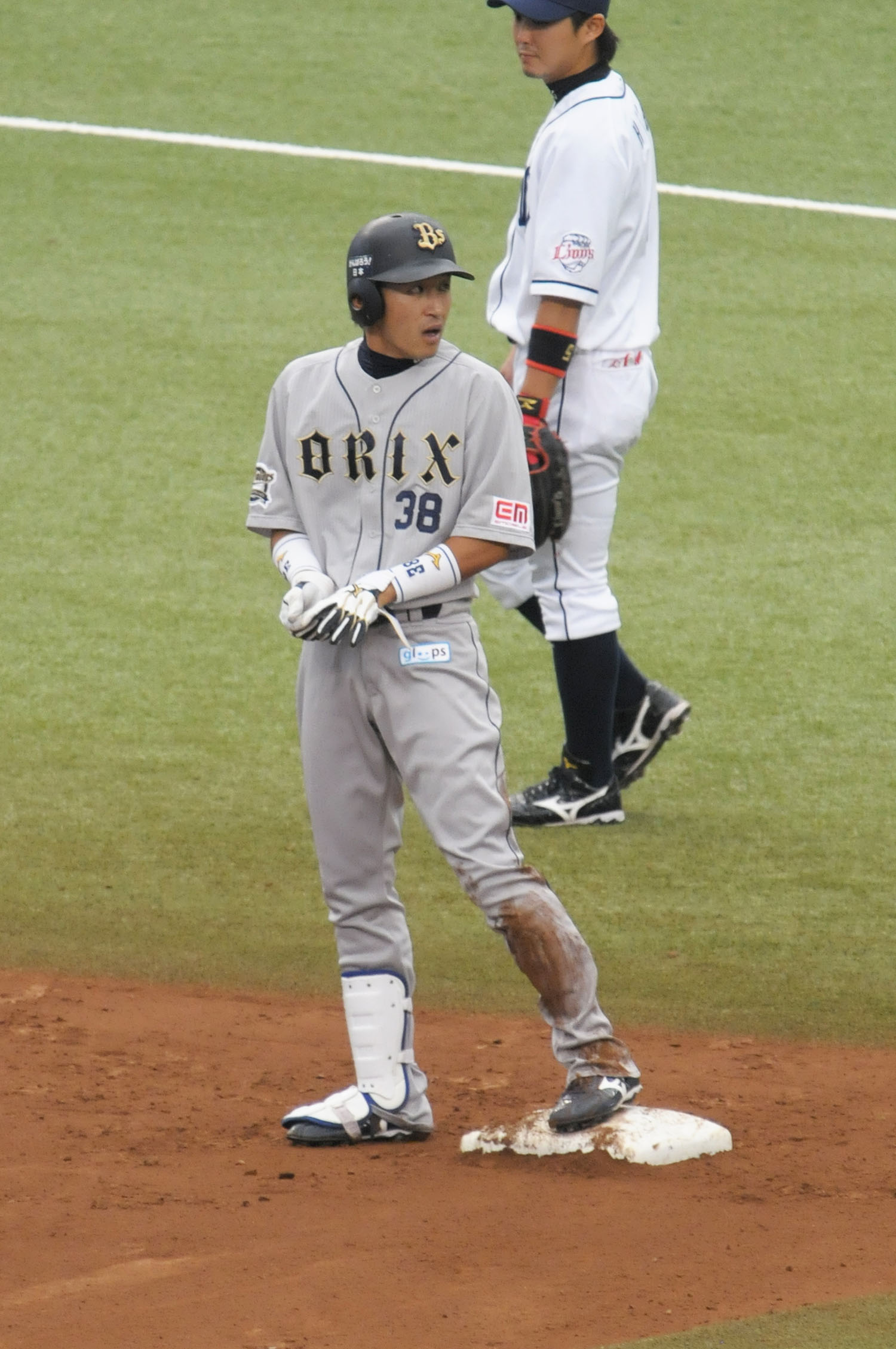 Shuhei Kojima, infielder of the Orix Buffaloes, at Seibu Dome.